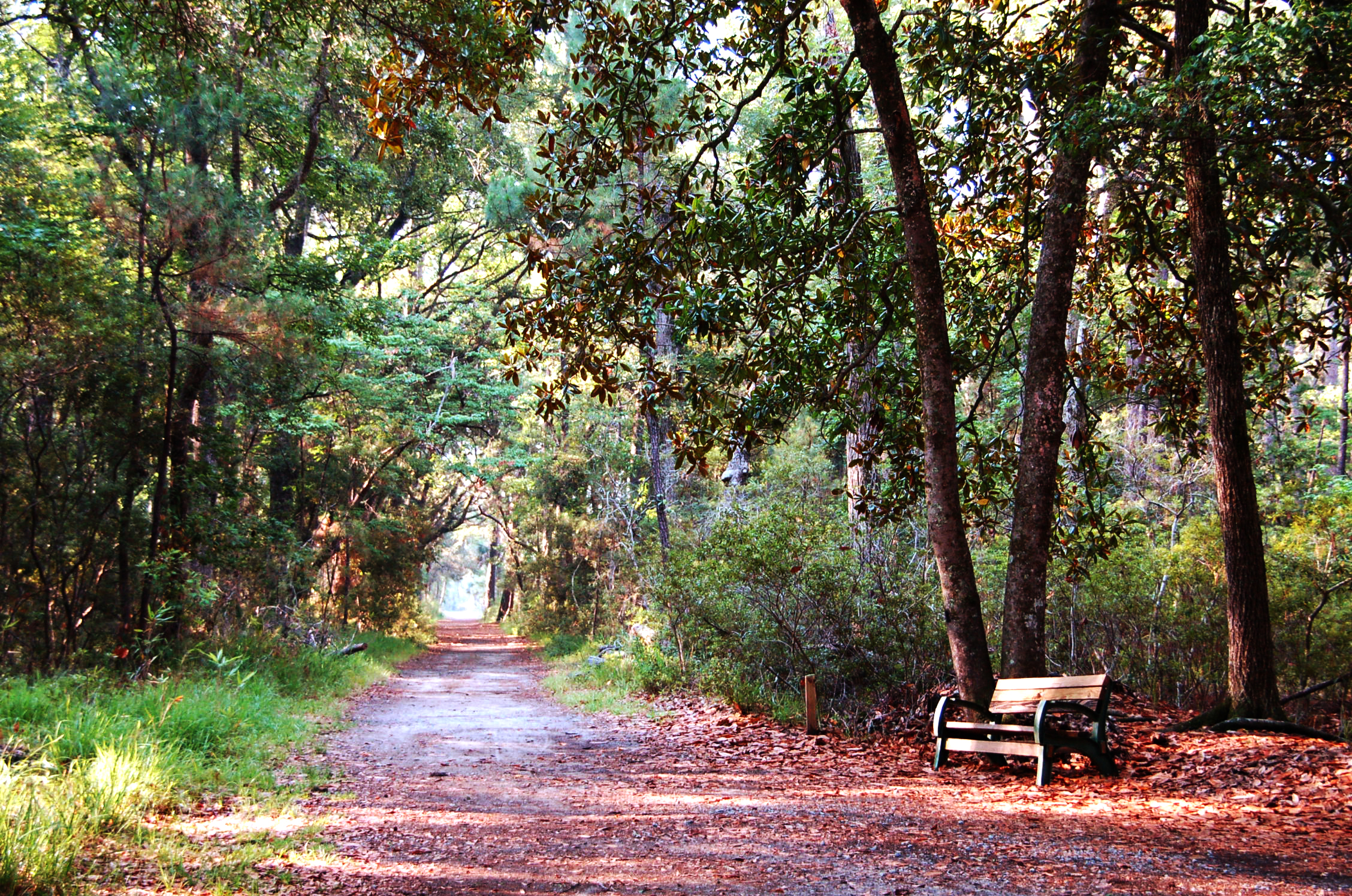 Skidaway Island State Park 15